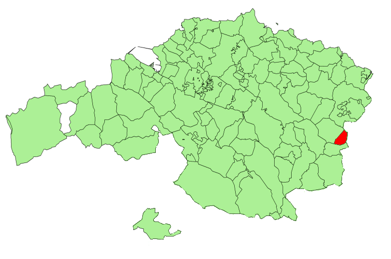 Ermua municipality in the province of Biscay